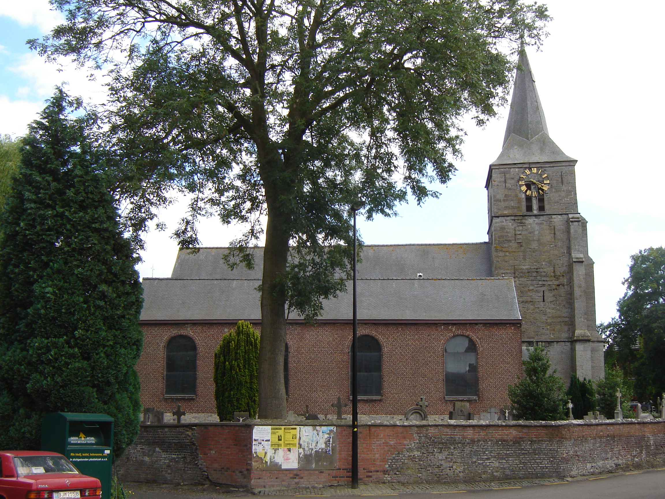 Church of Saint Peter, in Outrijve, Avelgem, West Flanders, Belgium.